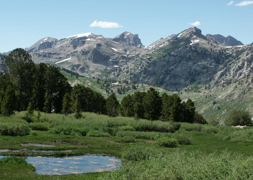 The Ruby Mountains Wilderness, Nevada, as seen looking west across Kleckner Canyon from a point near the Ruby Crest National Recreation Trail, with Ruby Dome in the distance (at far left).